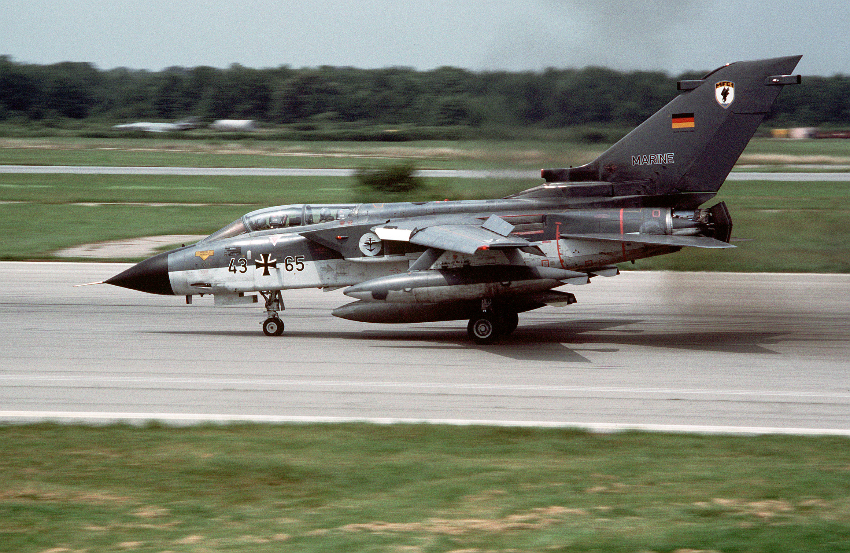 A Federal German Navy Panavia Tornado IDS aircraft (s/n 43+65) lands at Naval Air Station, Oceana, Virginia (USA), on 1 August 1989. The Tornado belonged to Marinefliegergeschwader 1 (MFG 1) (Naval Fighter Wing 1) at Jagel Air Base, Schleswig-Holstein (Germany). After the end of the cold war MFG 1 was disbanded in 1993. Note the thrust reversers.